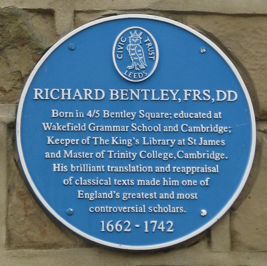 Blue Plaque commemorating Richard Bentley in Bentley Square, Oulton, LS26